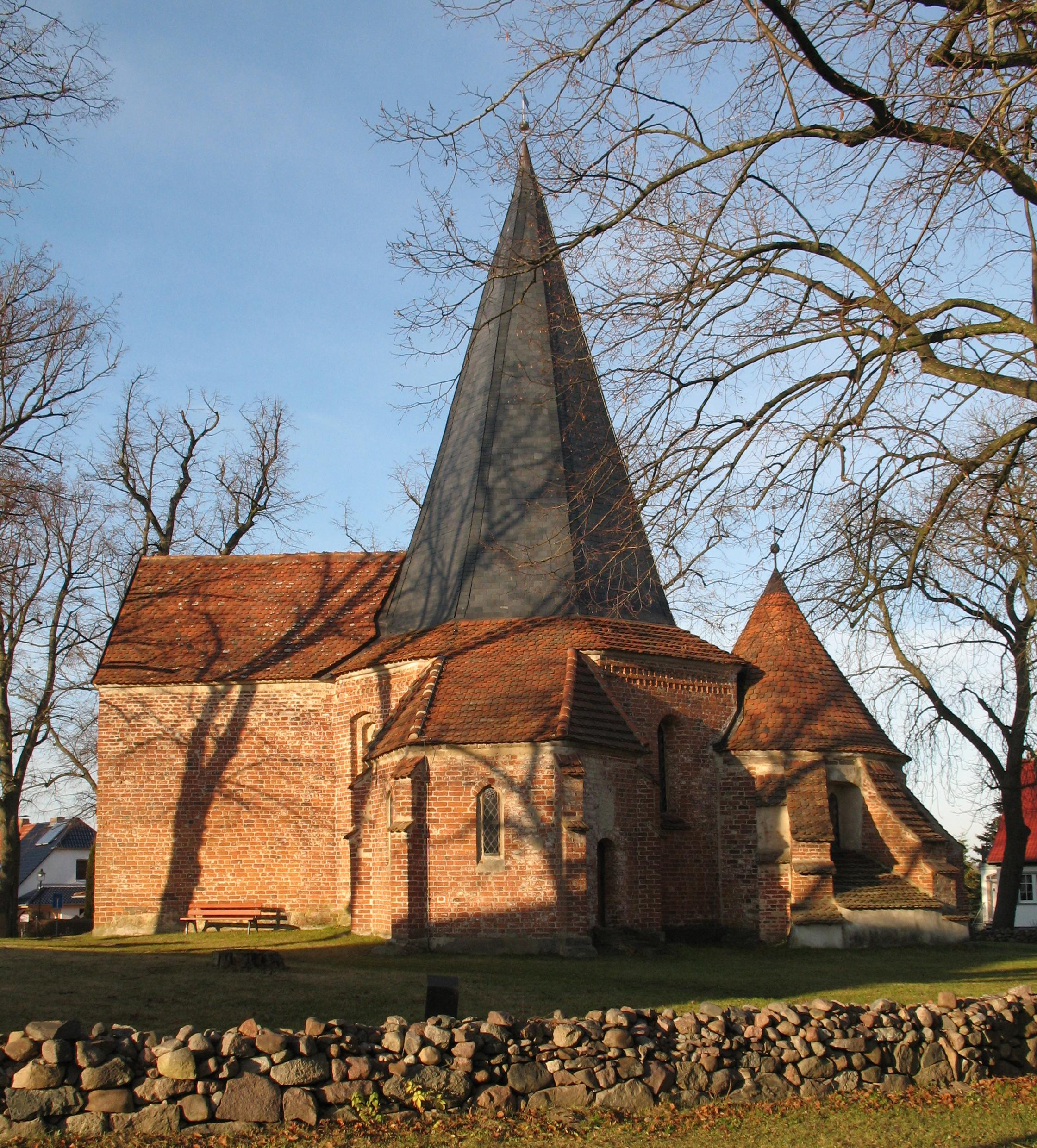 Church in Ludorf in Mecklenburg-Western Pomerania, Germany